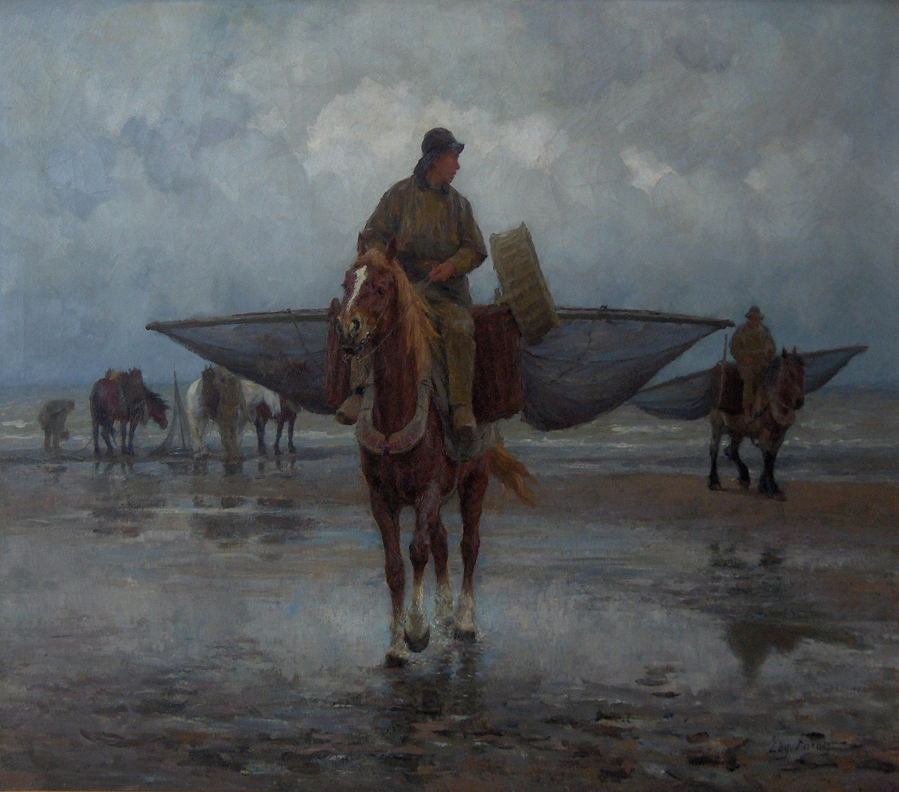 "Horse fishermen on the beach", painting by Edgard Farasijn